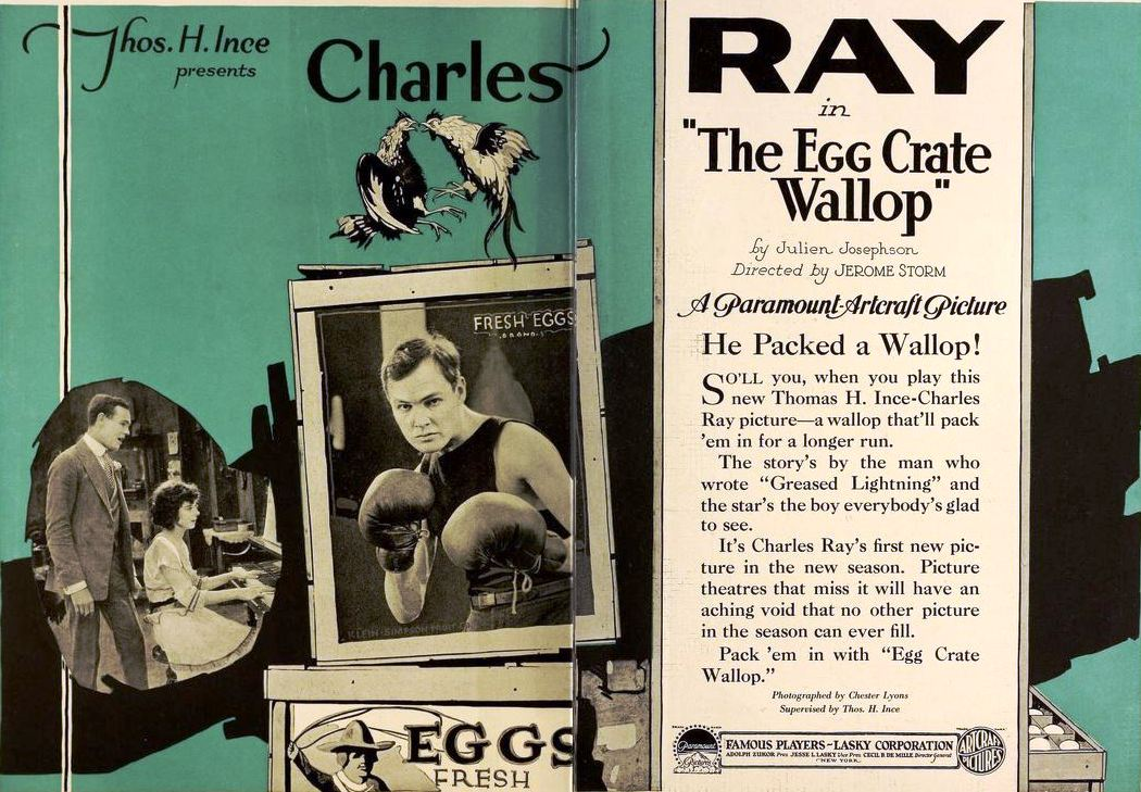 Ad for the American comedy film The Egg Crate Wallop (1919) with Charles Ray and Colleen Moore, on pages 960 and 961 of the August 2, 1919 Motion Picture News.